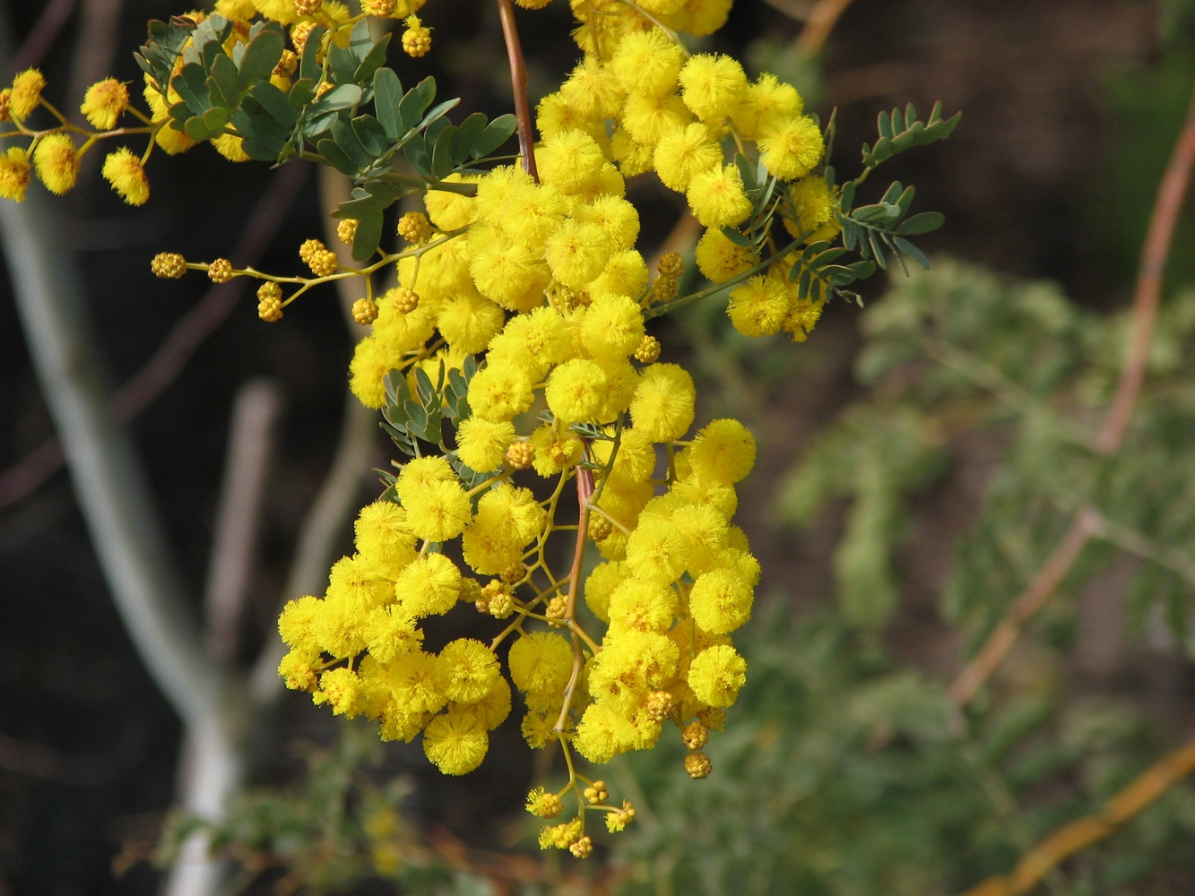 Acacia spectabilis (cultivated, labelled) Royal Botanic Gardens, Cranbourne, Victoria, Australia